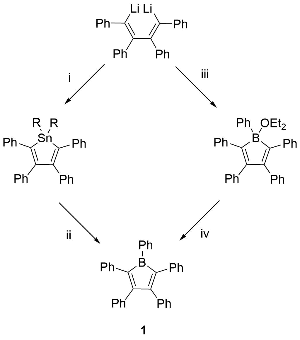 synthetic scheme